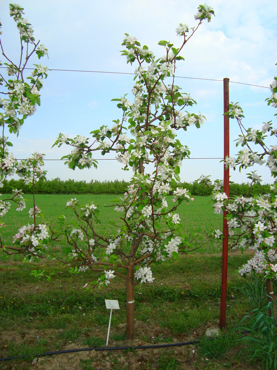 Jonagored apple tree during full blum